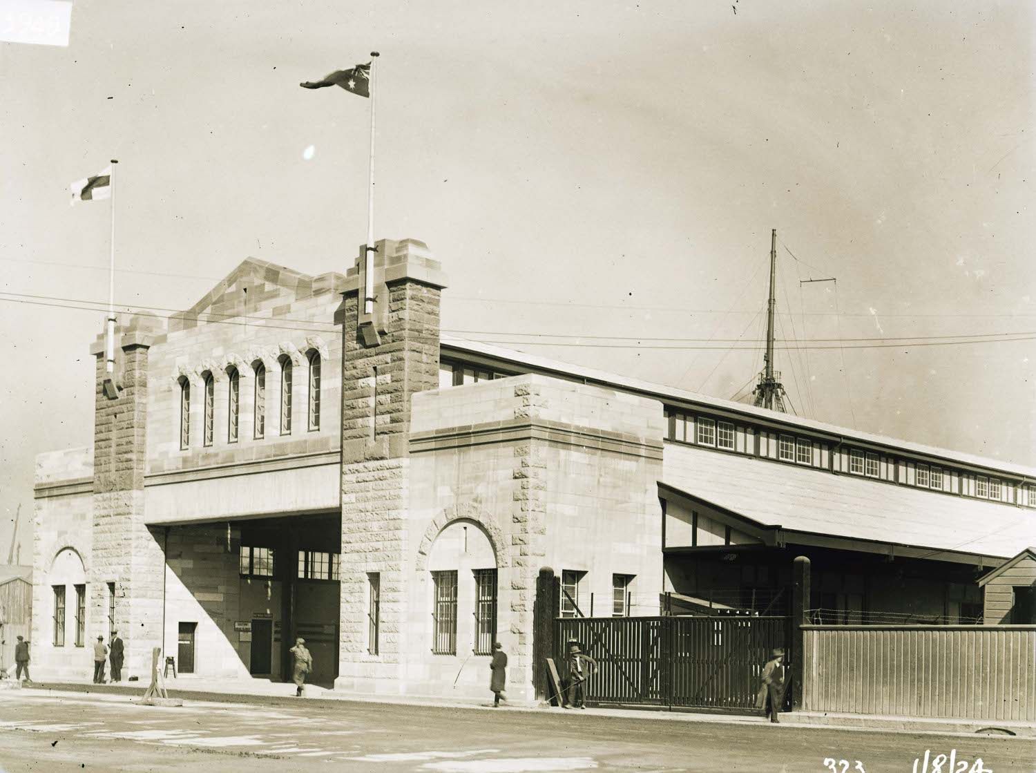 Woolloomooloo Wharf Dated: 1/8/1924 Digital ID: 9856_a017_A017000121 Rights: We'd love to hear from you if you use our photos. Many other photos in our collection are available to view and browse on our website using Photo Investigator.